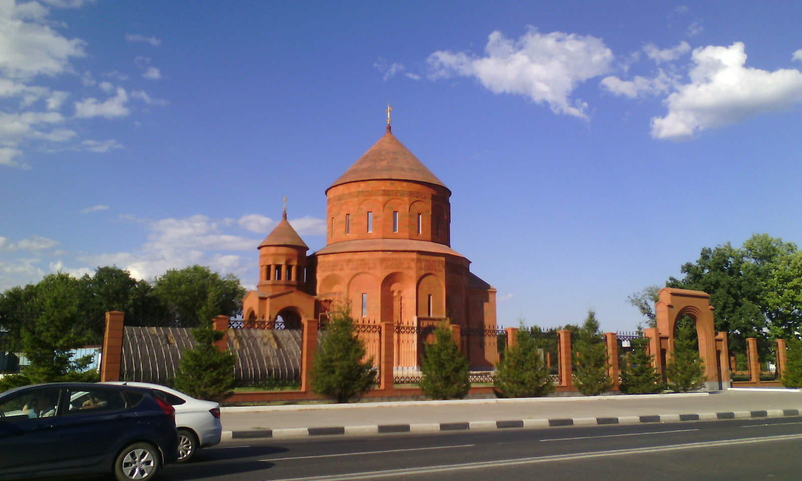 Built in 2007-2018 next to the airport, Saratov, Russia